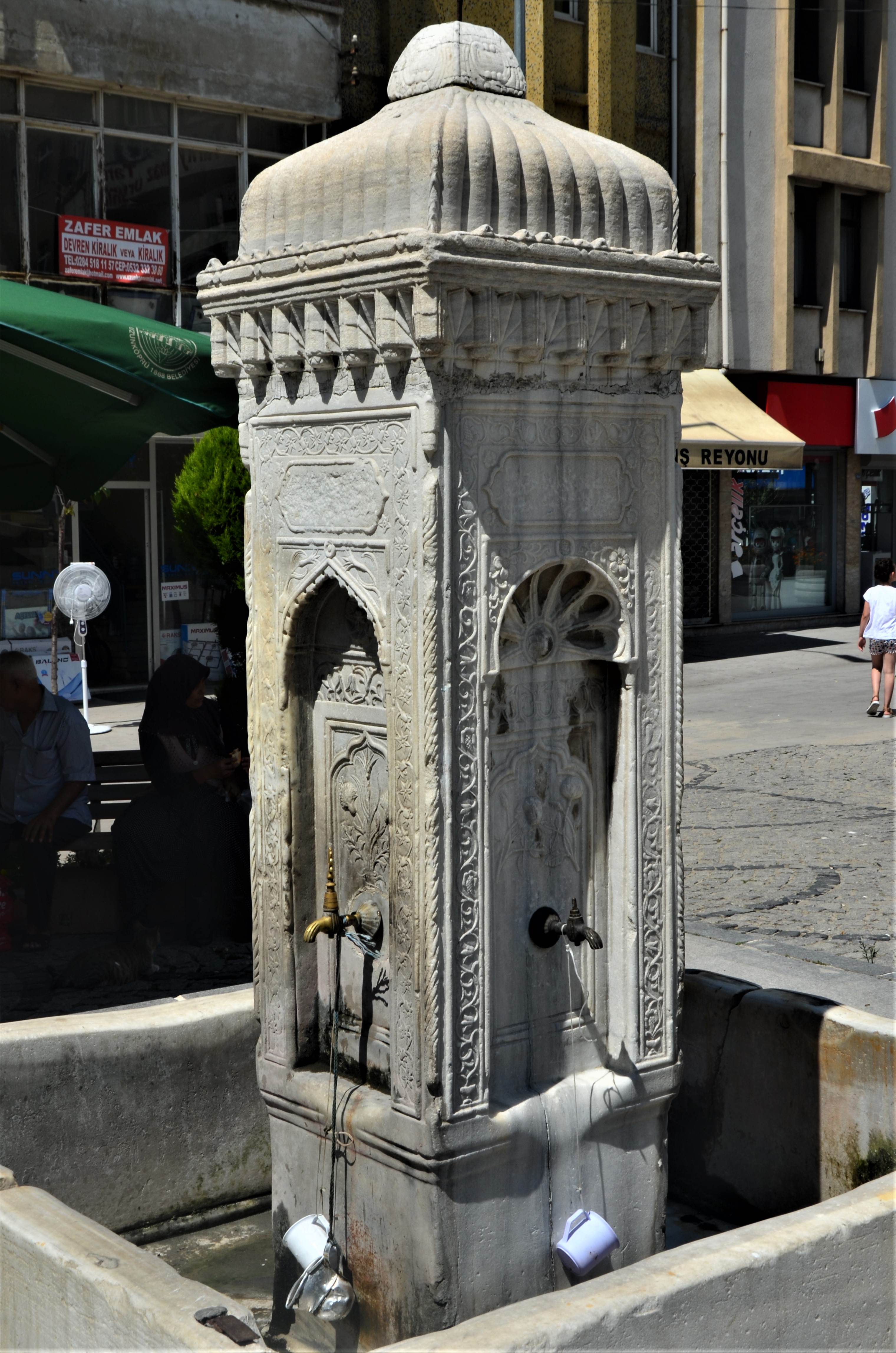 Telli Fountain (telli Çeşme) in Uzunköprü, Edirne Province, Turkey.